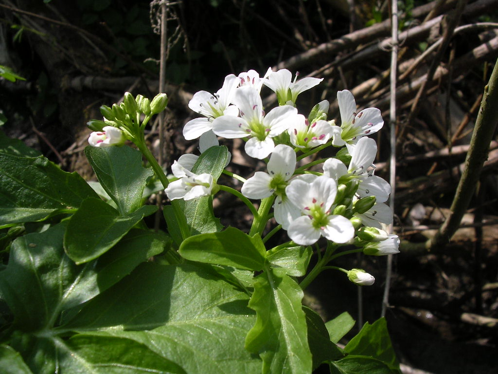 Nasturtium officinale